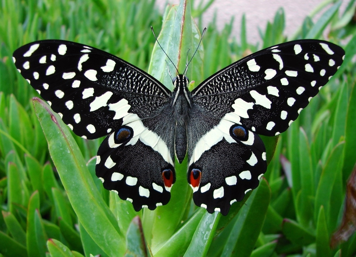 Citrus swallowtail at Bloubergrant in Cape Town, South Africa